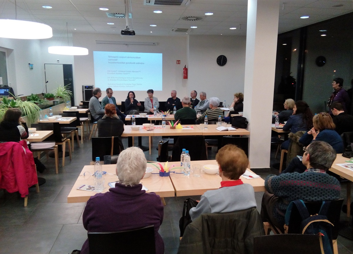 Alzheimer Cafe (Budapest, Hungary, 2018)